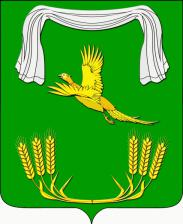 Coat of arms of Nezamayevski, Novopokrovskaya Raion, Krasnodar Krai, Russia